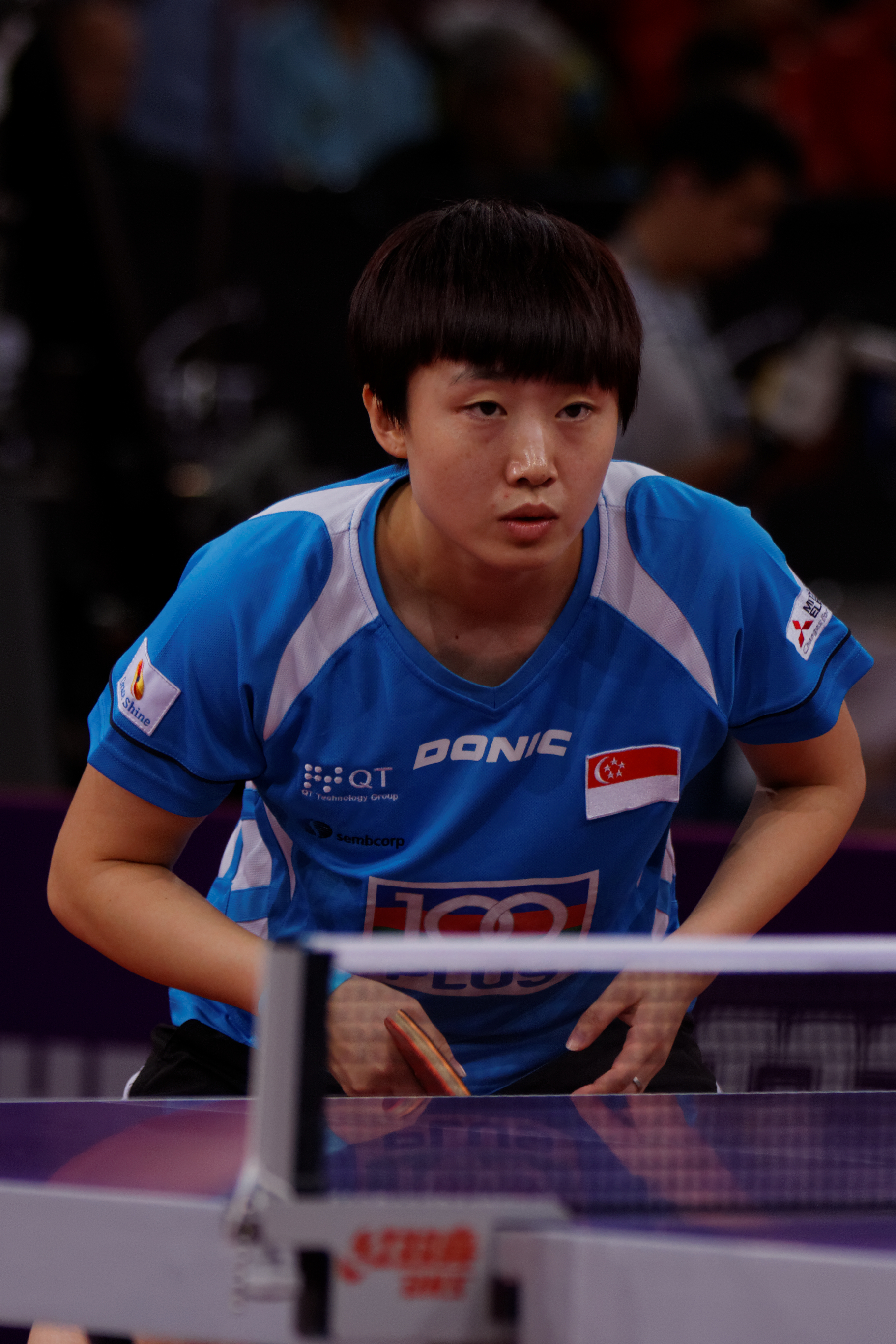 2013 World Table Tennis Championships, Paris. Women's Singles Quarterfinal. Zhu Yuling vs Feng Tianwei.